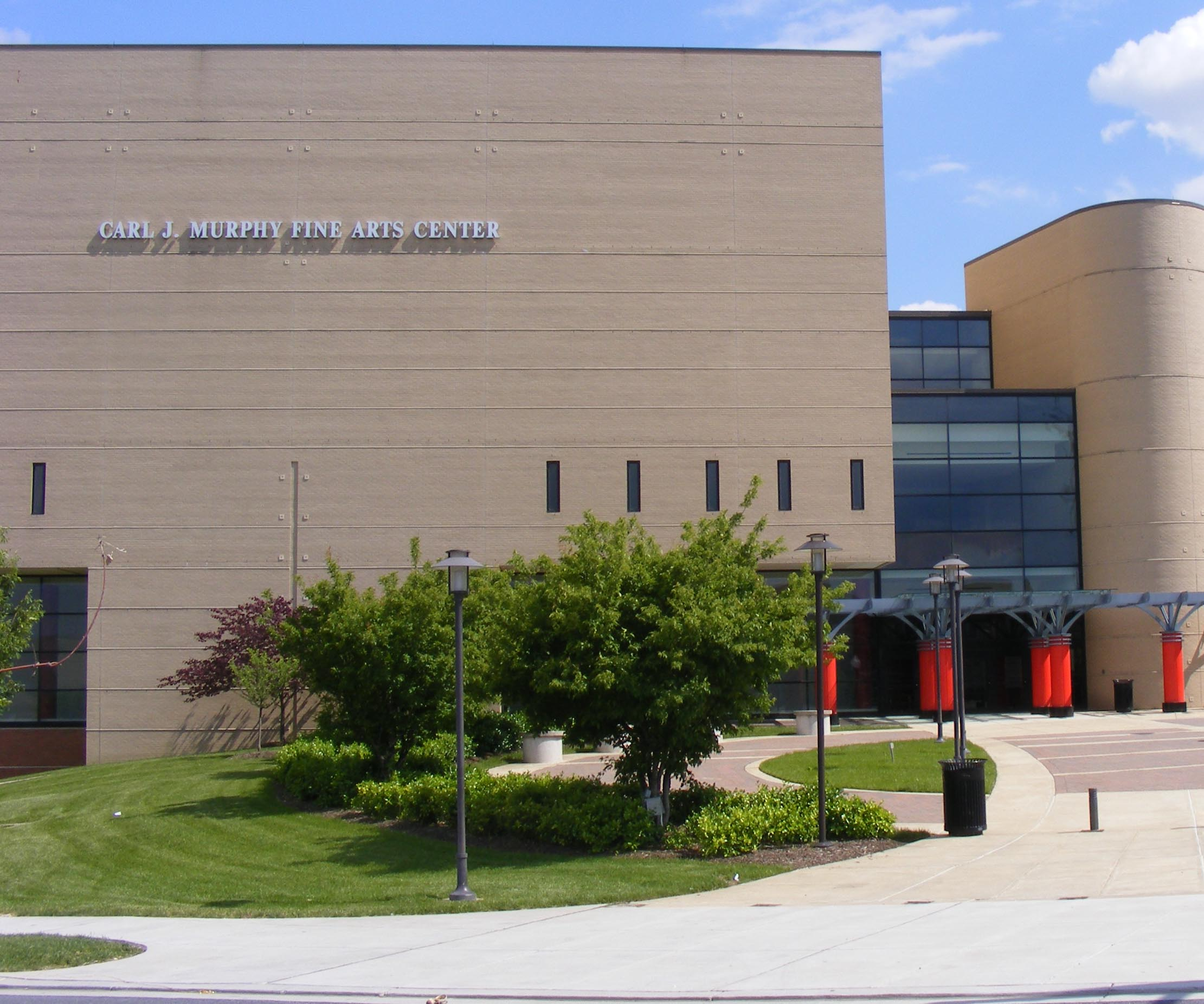 Carl. J. Murphy Fine Arts Center, Morgan State University.